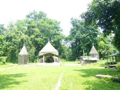 The Bura-buri Temple currently being renovated.